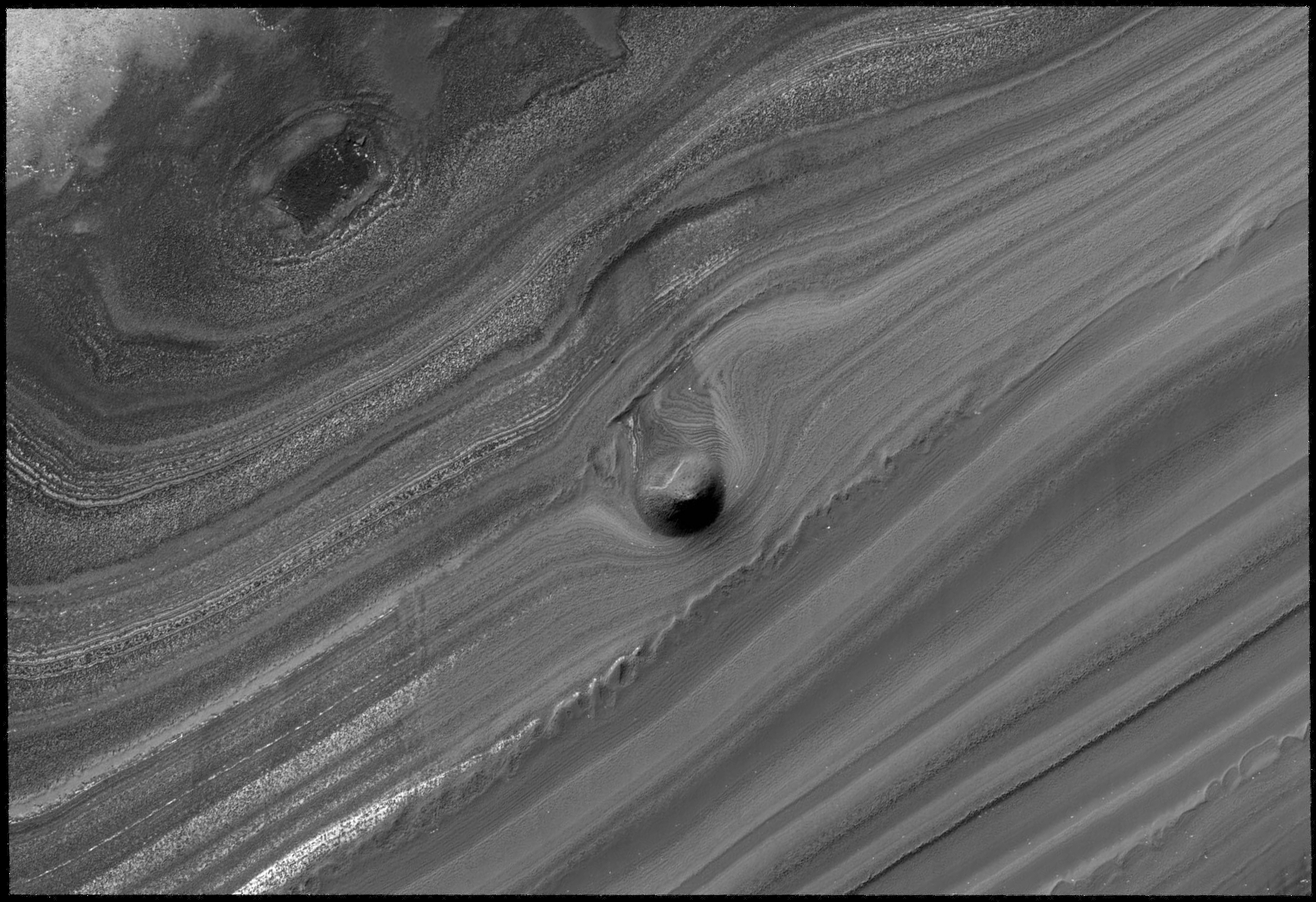 This striking image of a mound within the area of a trough cutting into Mars' north polar layered deposits was taken by the High Resolution Imaging Science Experiment (HiRISE) camera on NASA's Mars Reconnaissance Orbiter on September 2, 2008. The north polar layered deposits are a stack of discernible layers that are rich in water-ice. The stack is up to several miles thick. Each layer is thought to contain information about the climate that existed when it was deposited. If true, the stack could represent a record of how climate has varied on Mars in the recent past. The internal layers are exposed in troughs and scarps where erosion has cut into the stack. The trough shown in this image contains a 1,640-foot thick section of the layering. A conical mound partway down the slope stands approximately 130 feet high. One possible explanation for this unusual mound is that it may be the remnant of a buried impact crater now being exhumed. As the north polar layered deposits accumulated, impacts occurred throughout their surface area, then the impact craters were buried by additional ice. These buried craters are generally inaccessible, but, in a few locations, erosion that forms a trough (like this one) can uncover these buried structures. For reasons poorly understood, the ice beneath the site of the crater is more resistant to this erosion, so when material is removed by erosion the ice beneath the old impact site remains, forming this isolated hill.